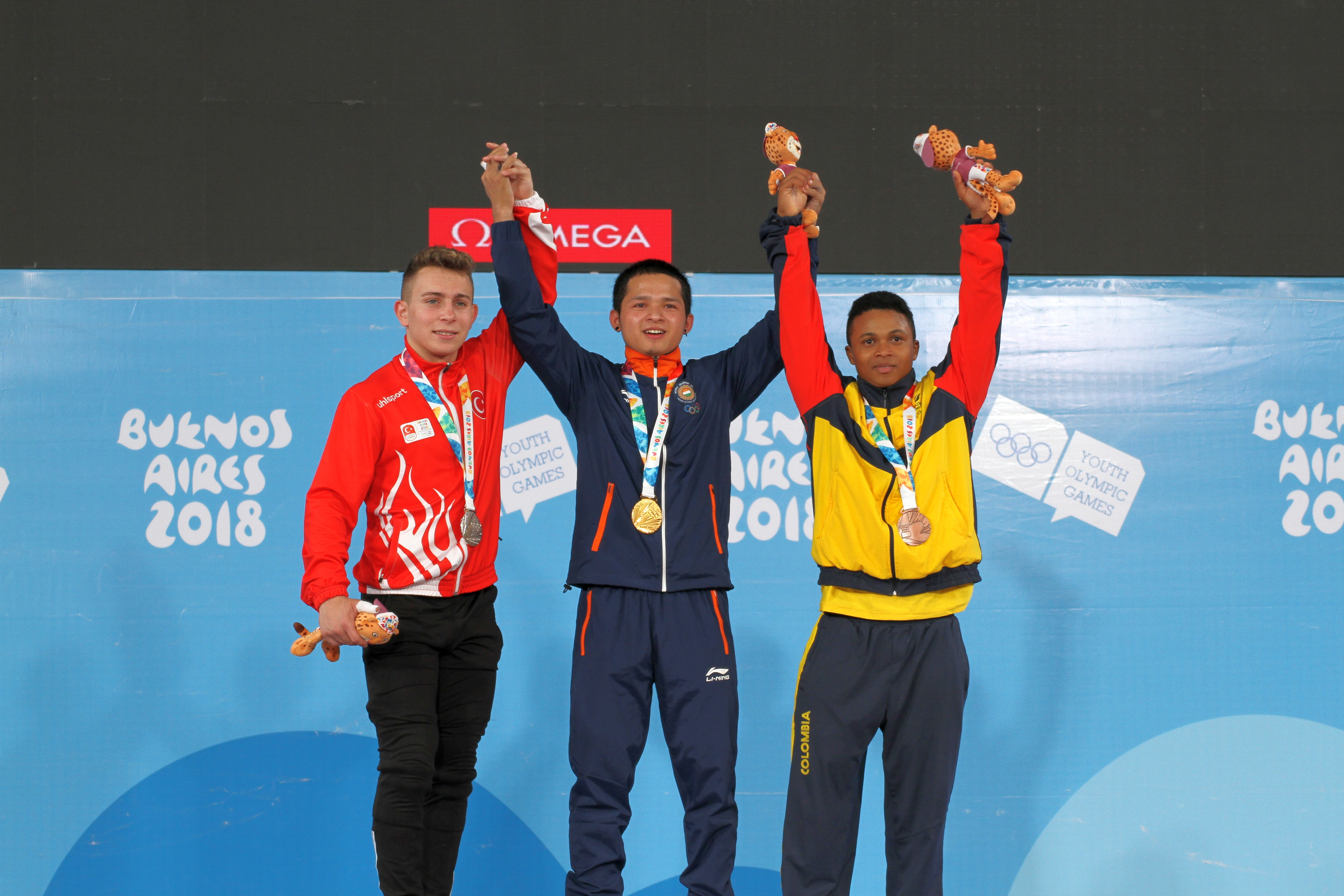 Weightlifting at the 2018 Summer Youth Olympics at 8 October 2018 – Boys' 62 kg